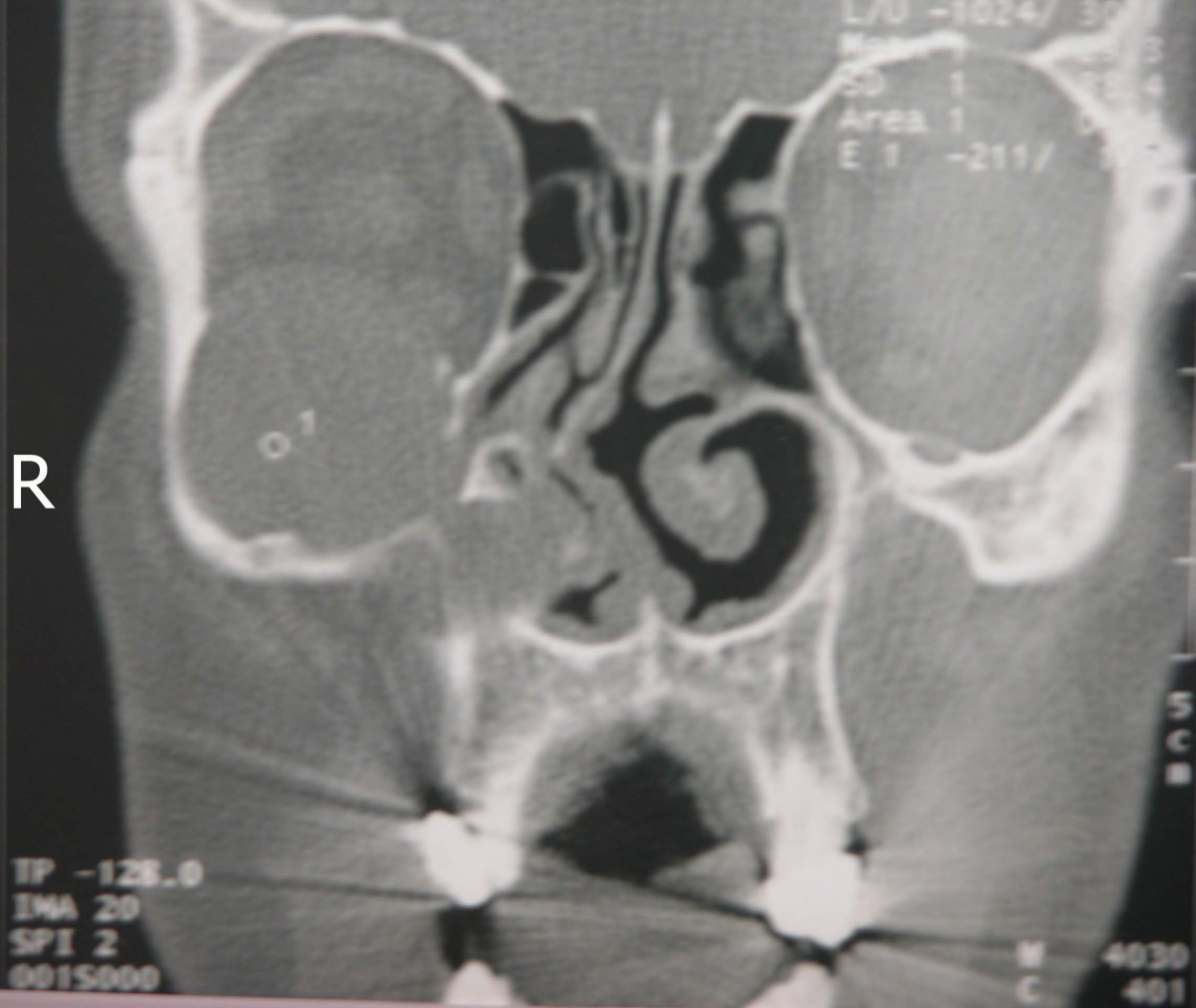 Right maxillary mucocele eroding superior wall of the sinus causing eye proptosis and cheek swelling.